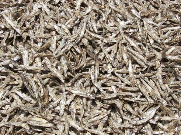 wazef